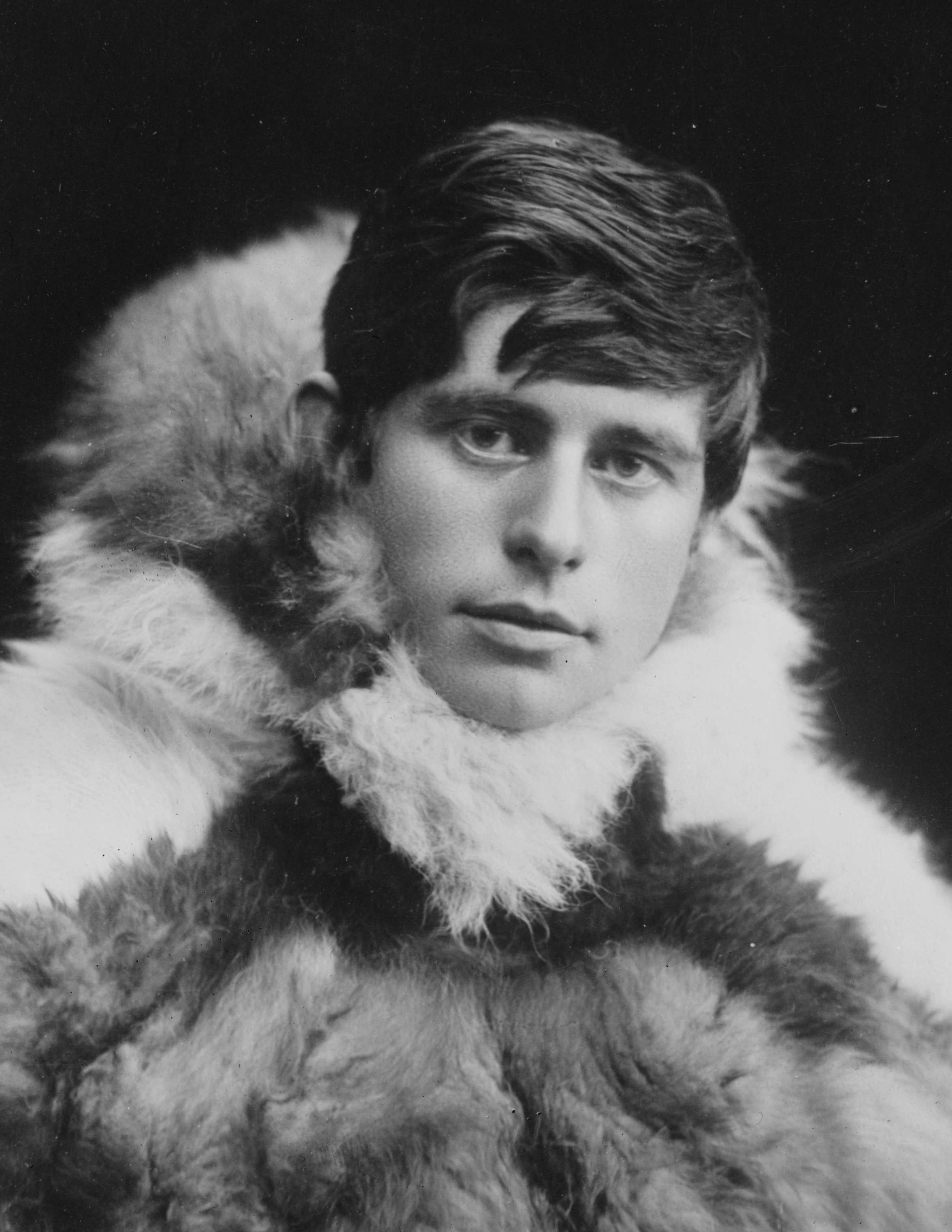 Danish/Greenlandic explorer Knud Rasmussen (1879-1933)